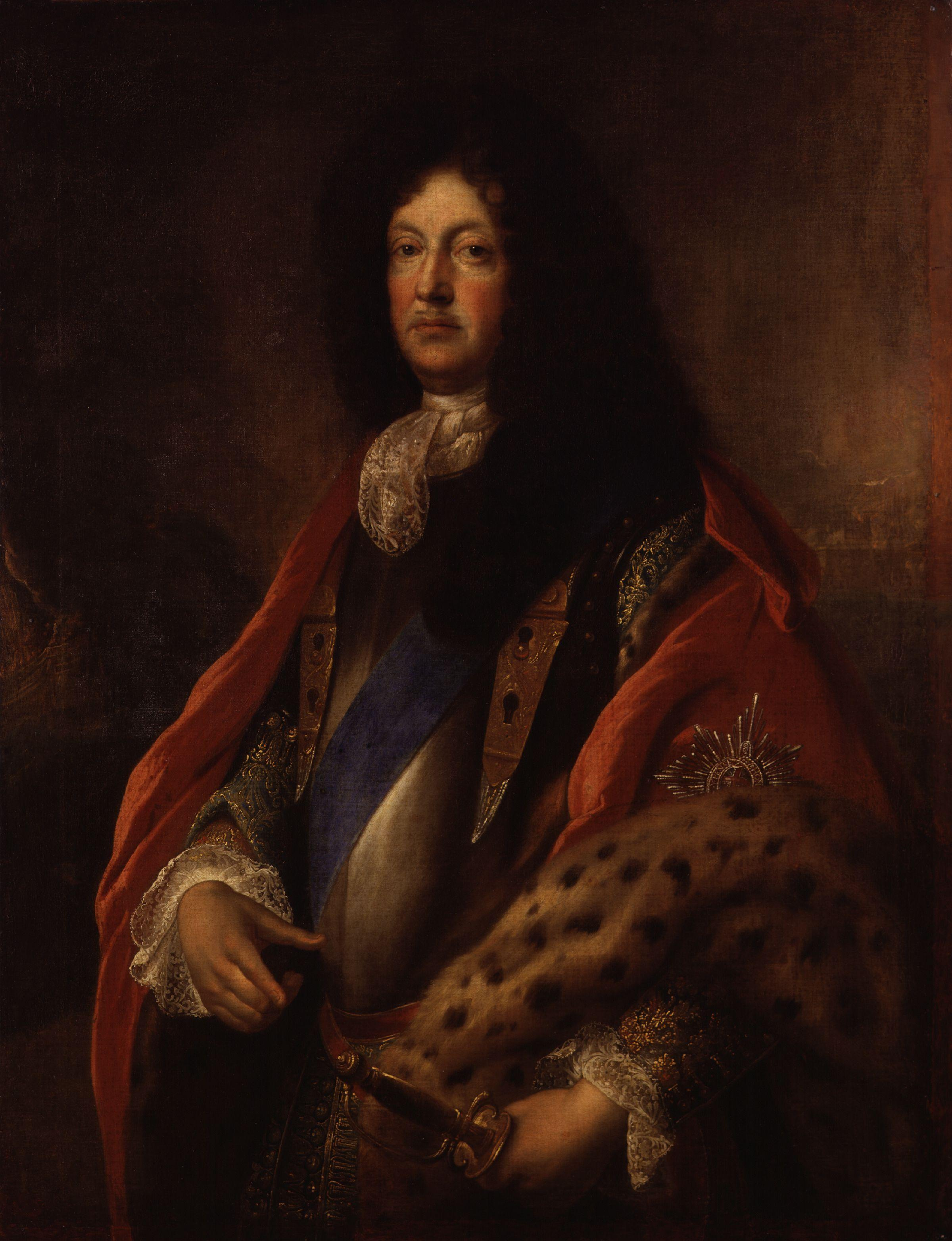 Richard Talbot, Earl of Tyrconnel, by François de Troy (died 1730). All images in this batch have been confirmed as author died before 1939 according to the official death date listed by the NPG.